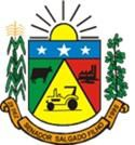 Coat of arms of the city of Senador Salgado Filho, Rio Grande do Sul, Brazil.